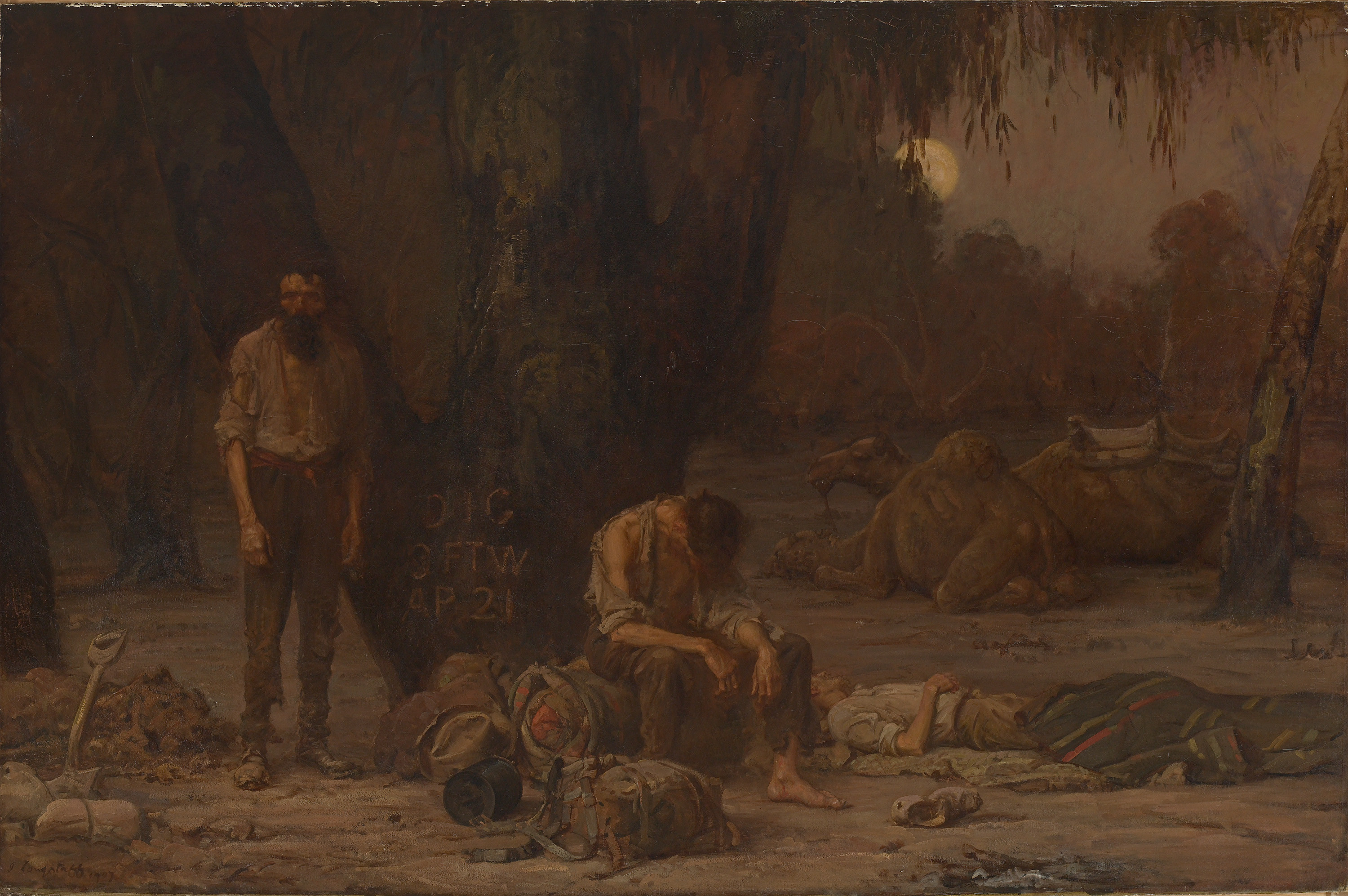 Arrival of Burke, Wills and King at the deserted camp at Cooper's Creek, Sunday evening, 21st April 1861